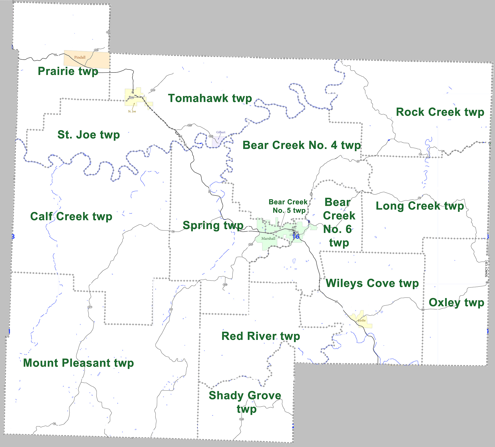 Large version of map showing townships in Searcy County, Arkansas. Modified from US census map (for 2010 census) for Searcy County, Arkansas